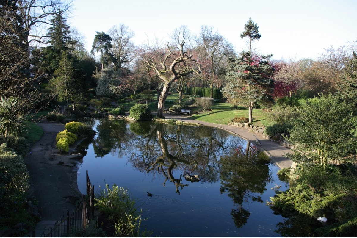 Walpole Park's eastern ornamental pond. Original purpose may have been Pitzhanger Manor's garden's ha-ha against cattle and sheep.